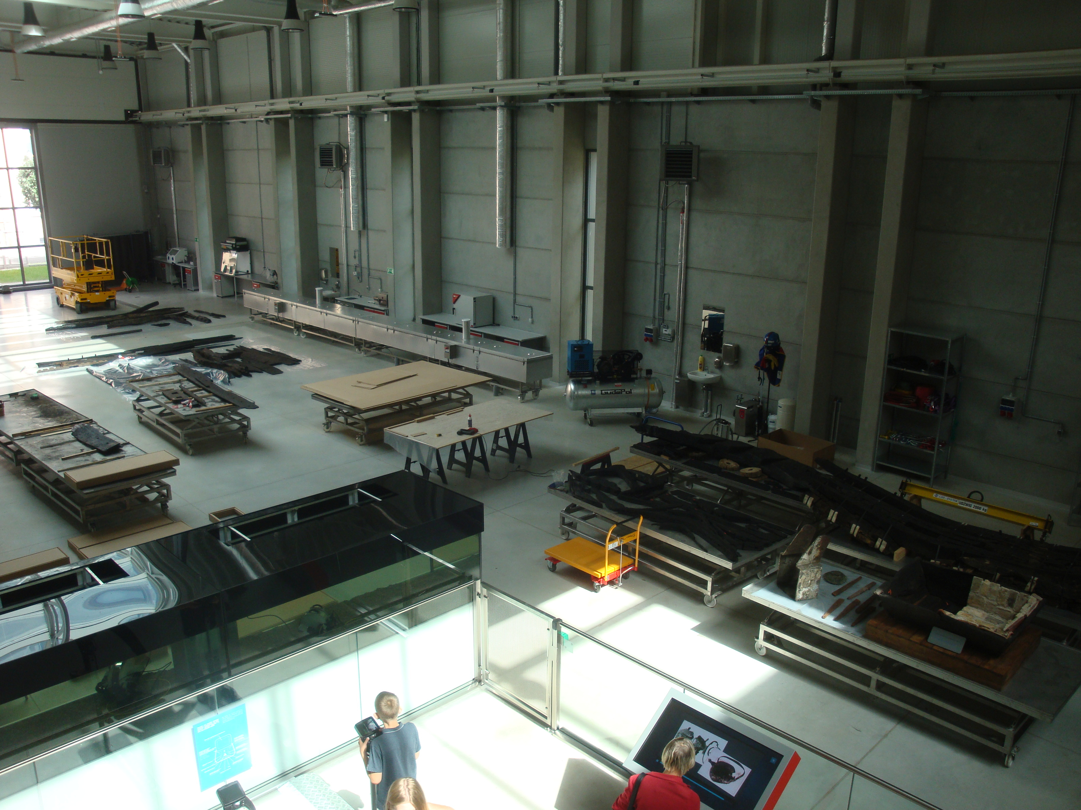 Workshop part of Shipwreck Conservation Centre in Tczew, Poland. Centrum Konserwacji Wraków Statków (Shipwreck Conservation Centre) in Tczew is branch of National Maritime Museum in Gdańsk, Poland. Museum takes care about relicts of ships and boats and keeps exhibition of renovated items.